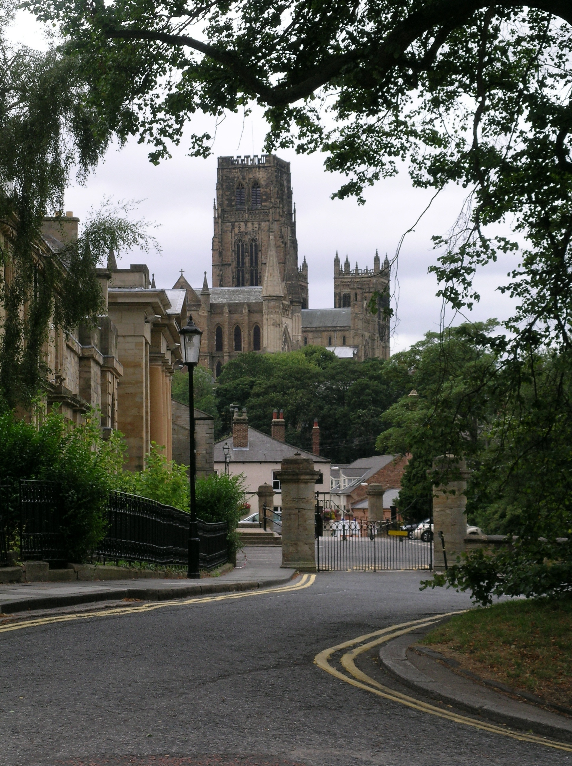 Durham Cathedral and the Court. 12 August 2006 by Uli Harder, from